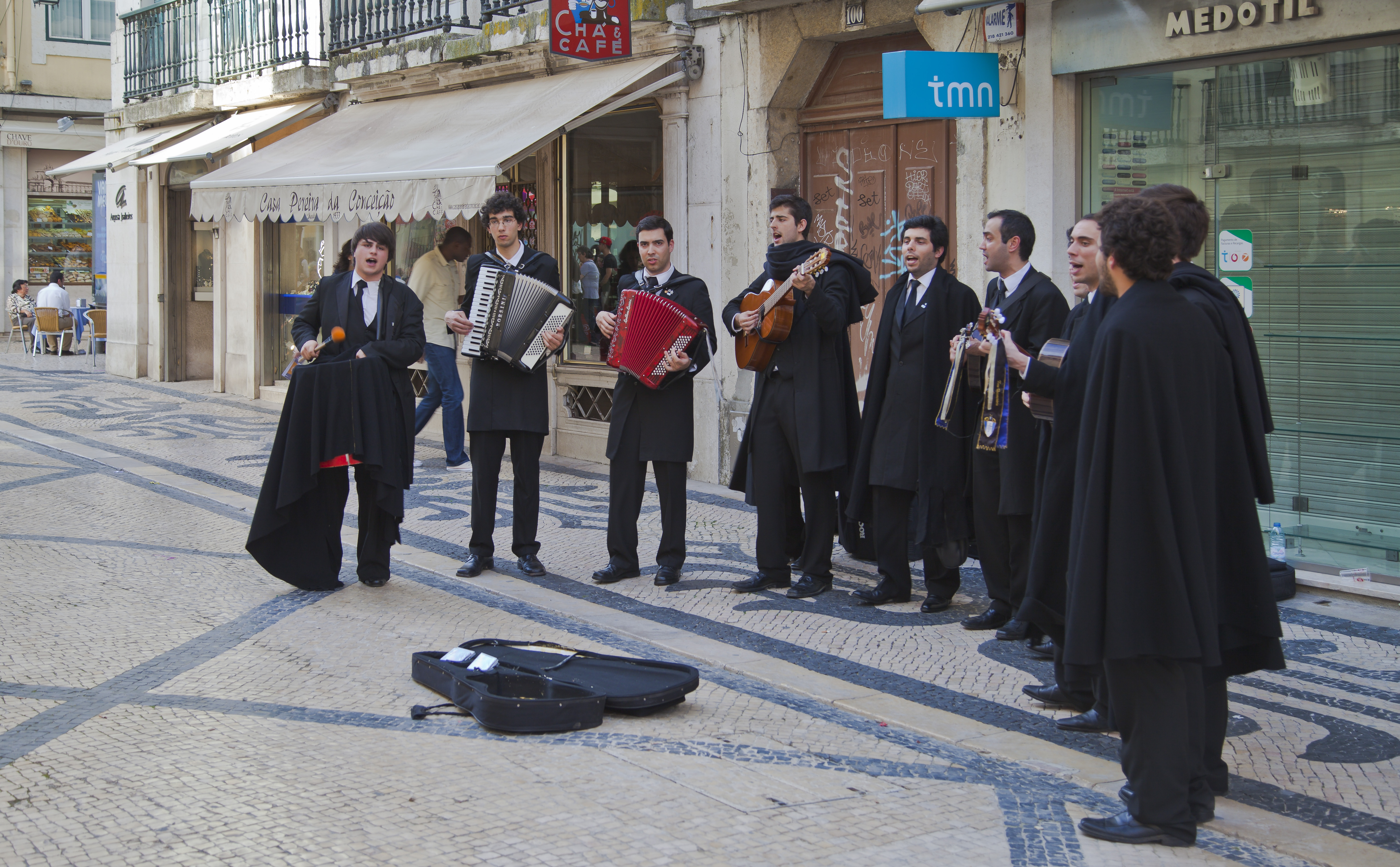 University Tuna in Rua Augusta, Figueira Square, Lisbon, Portugal